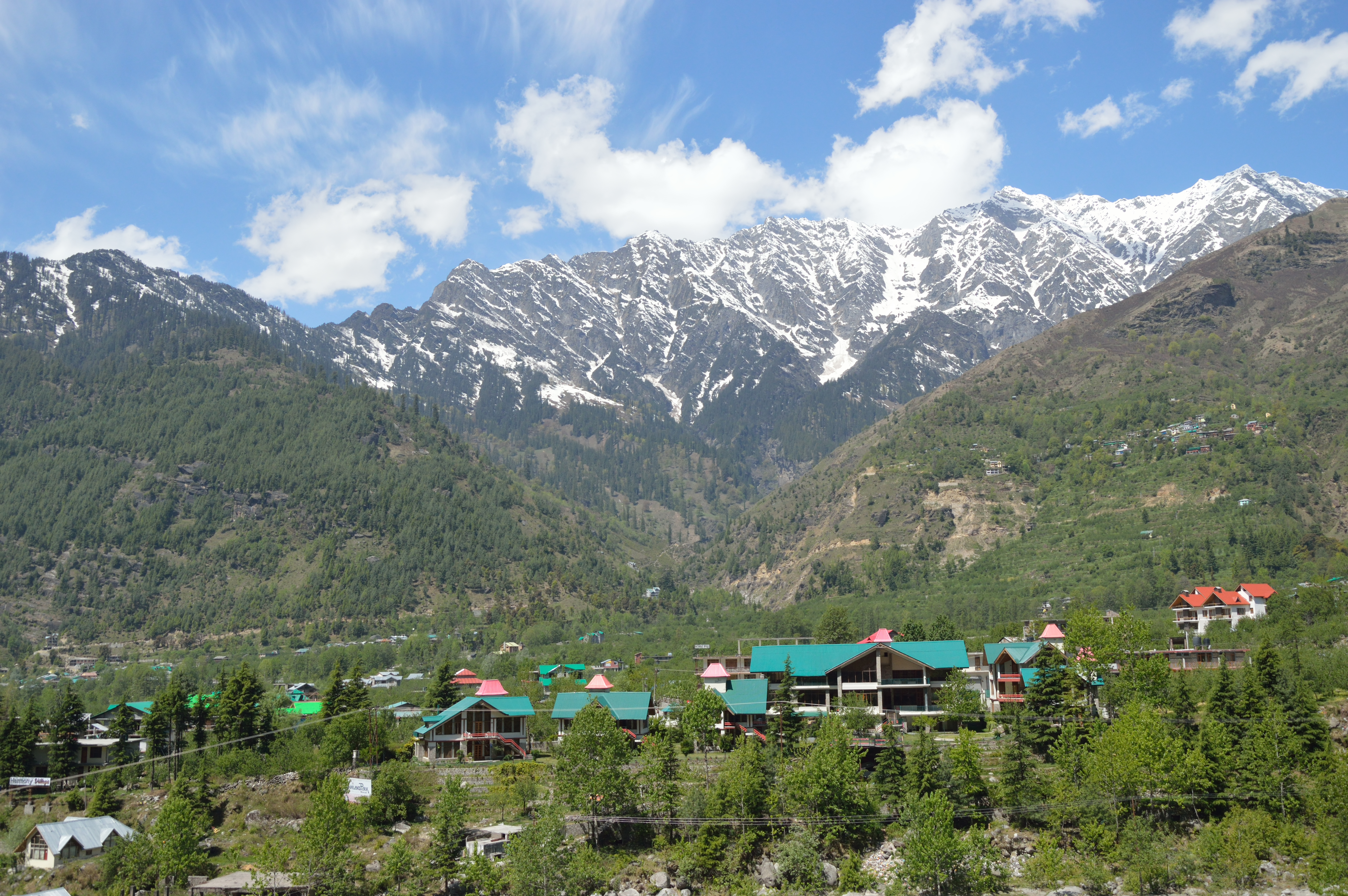 Photographed in Kullu district, Himachal Pradesh.